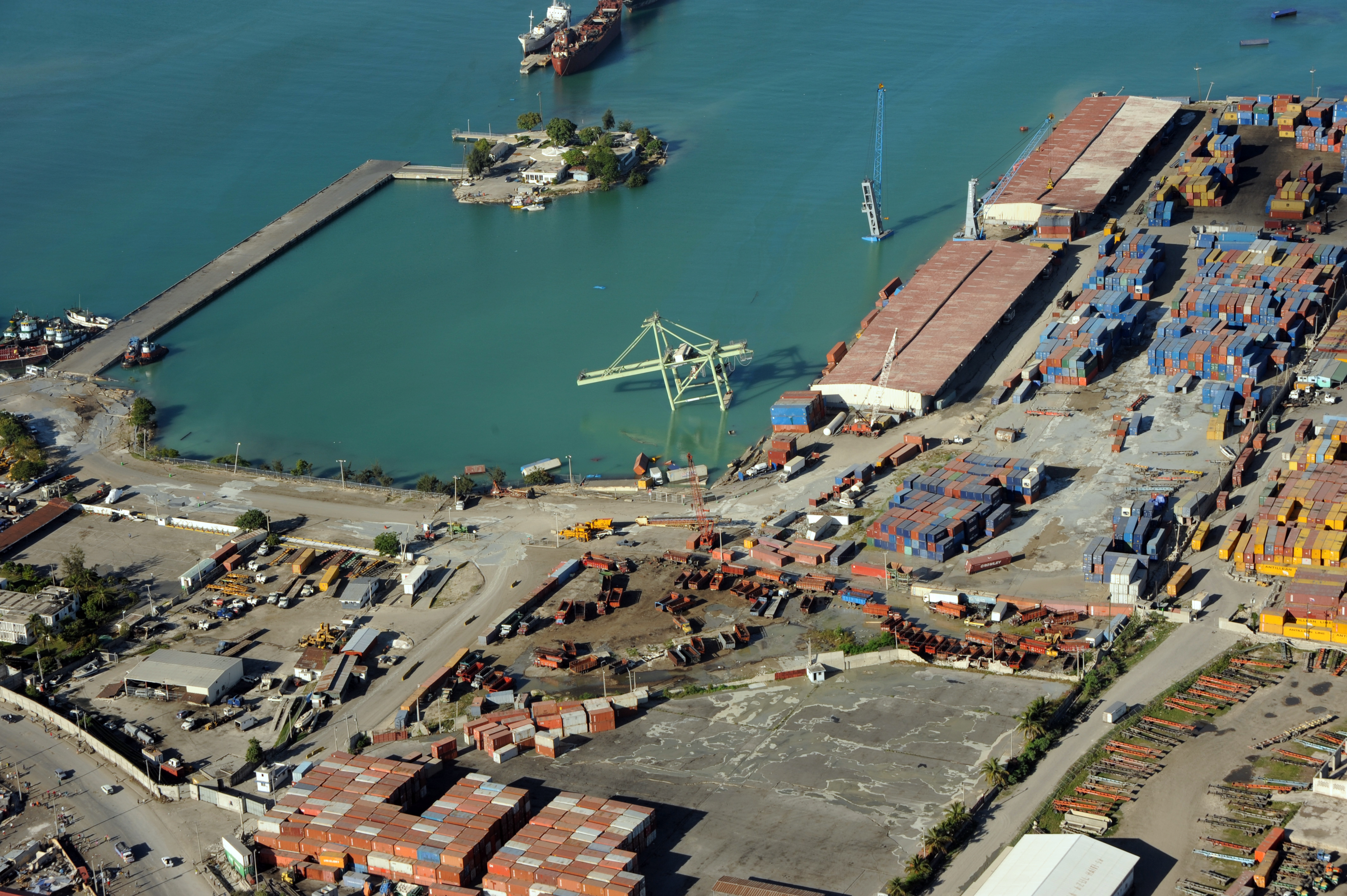 CLEARWATER, Fla. - A Coast Guard C-130 Hercules fixed-wing aircraft crew from Air Station Clearwater, conducts an overflight assessment above Port-au-Prince, Haiti, January 13, 2010. The assessment follows a 7.0 magnitude earthquake that damaged the region January 12, 2010. U.S. Coast Guard photo by Petty Officer 2nd Class Sondra-Kay Kneen.